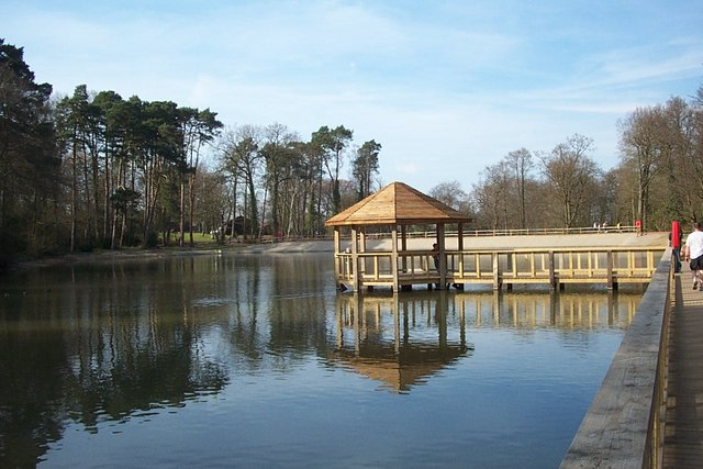 Tilgate Park a new viewing platform at the duck pond in the animal park.